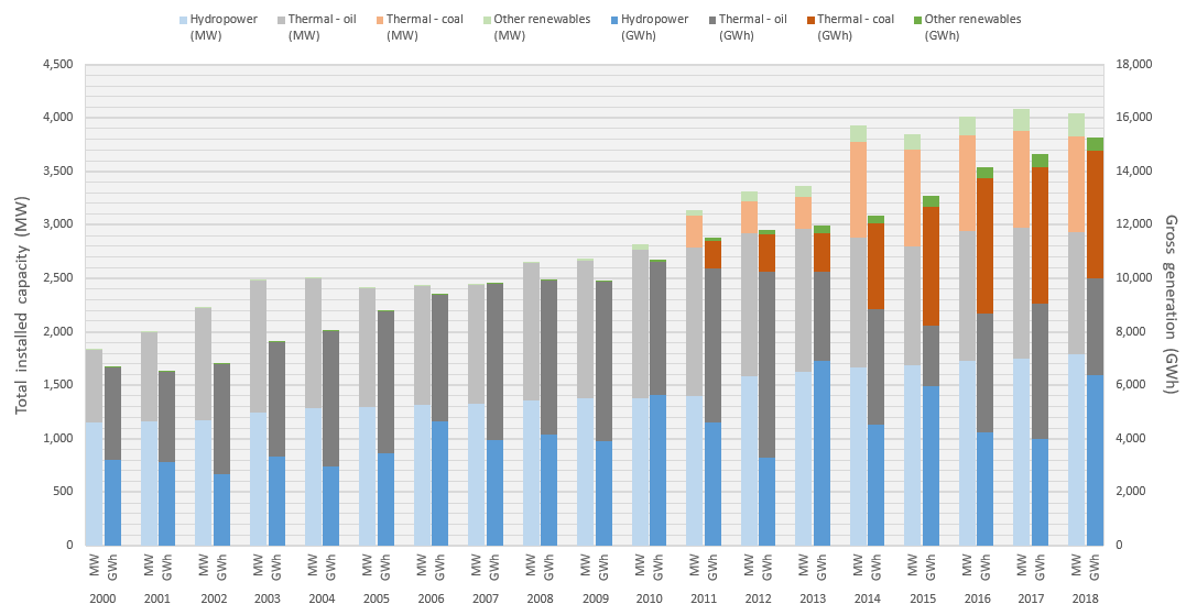 Chart showing the on-grid installed electrical capacity (in megawatts) and on-grid electrical production (in gigawatt-hours) of Sri Lanka, from 2000 to present. Hydropower sources consists of both large government-owned facilities and private small-hydro plants. Thermal sources consists of diesel, natural gas, and all other fuel oil sources. Coal sources consists of the 900-megawatt Lakvijiya Power Station, commissioned in late-2011. It is the country's only coal power station. Other renewable power sources consists of wind power, solar power, and biofuels such as biomass. Other notes: There are minor mismatches in the 'total' values when compared between the yearly digests published by the CEB (installed capacity and power generation). In such cases, the original values are considered, not the altered valued published during the following year. Multiple minor arithmetic errors are present in the statistical reports. In such instances, a mathematically corrected figure has been used. Errors include deviations from the actual totals by 1-5 MW/GWh. This clustered stacked bar chart was custom made using Microsoft Excel 2016. (Clustered stacked bar charts are not available in Excel as a predefined type)